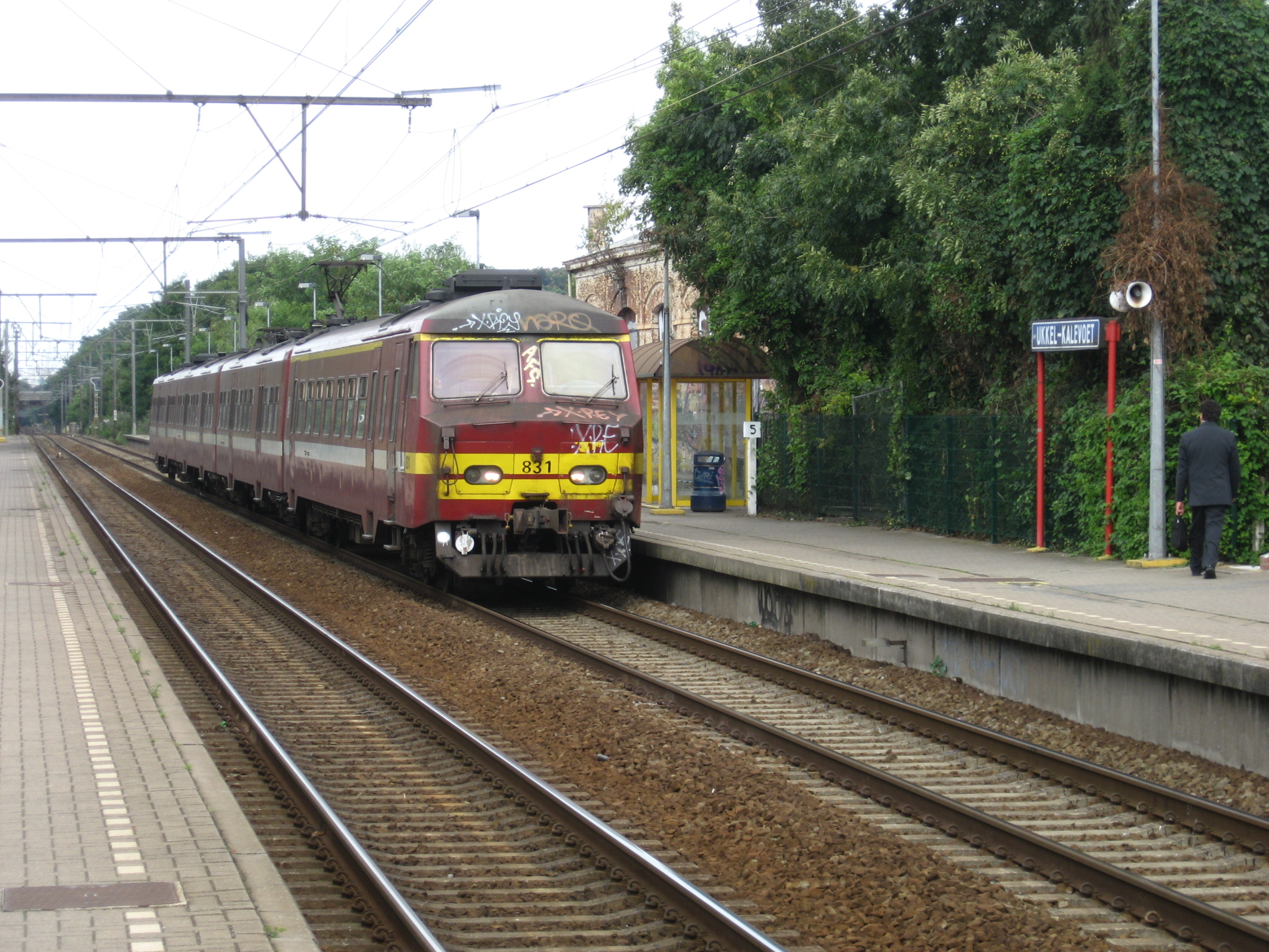 Uccle Calevoet station with a local stopping train